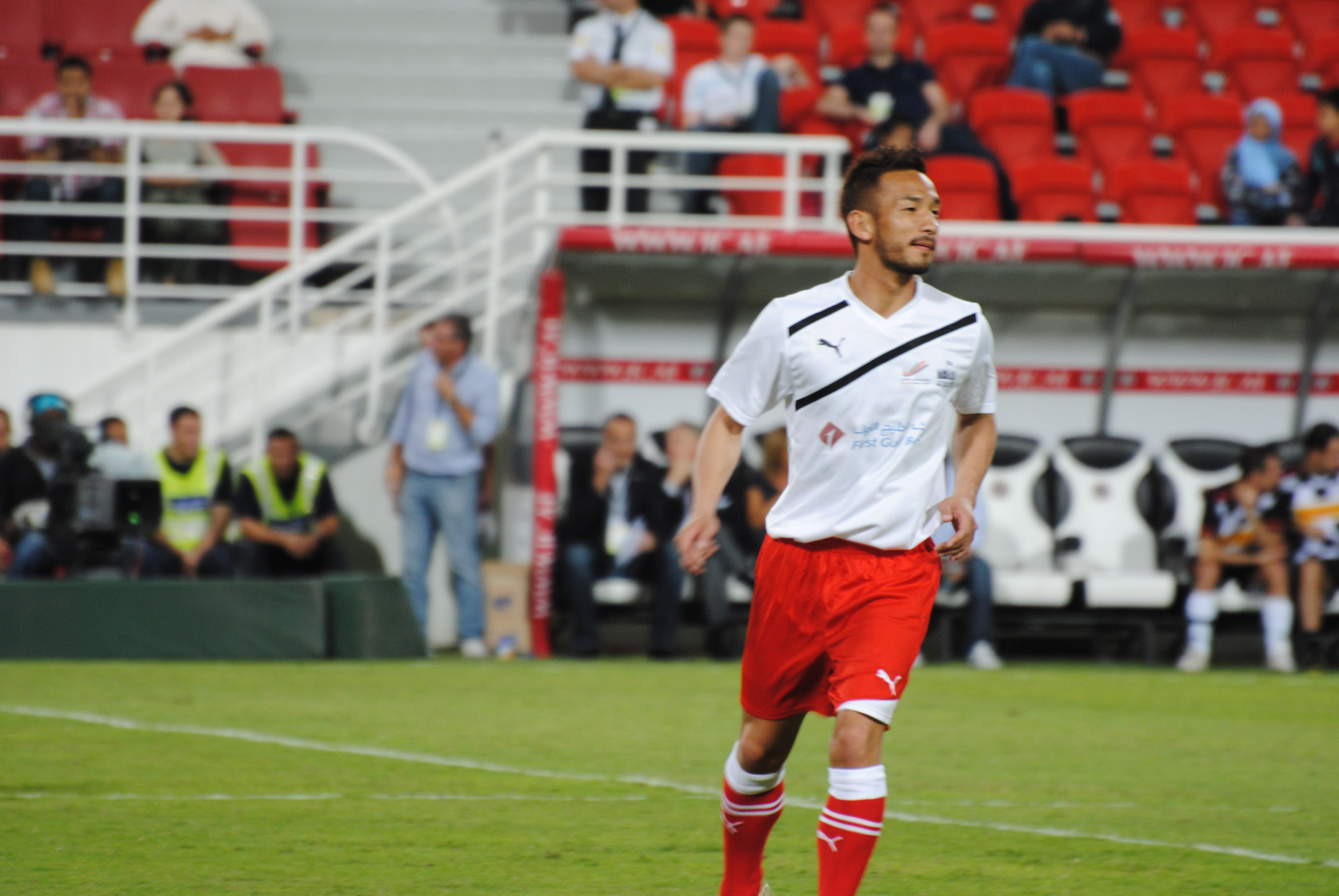 Hidetoshi Nakata